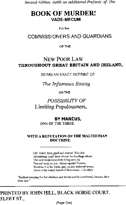 Book of Murder frontcover published during the 1800s as a piece of anti-poor law propaganda.